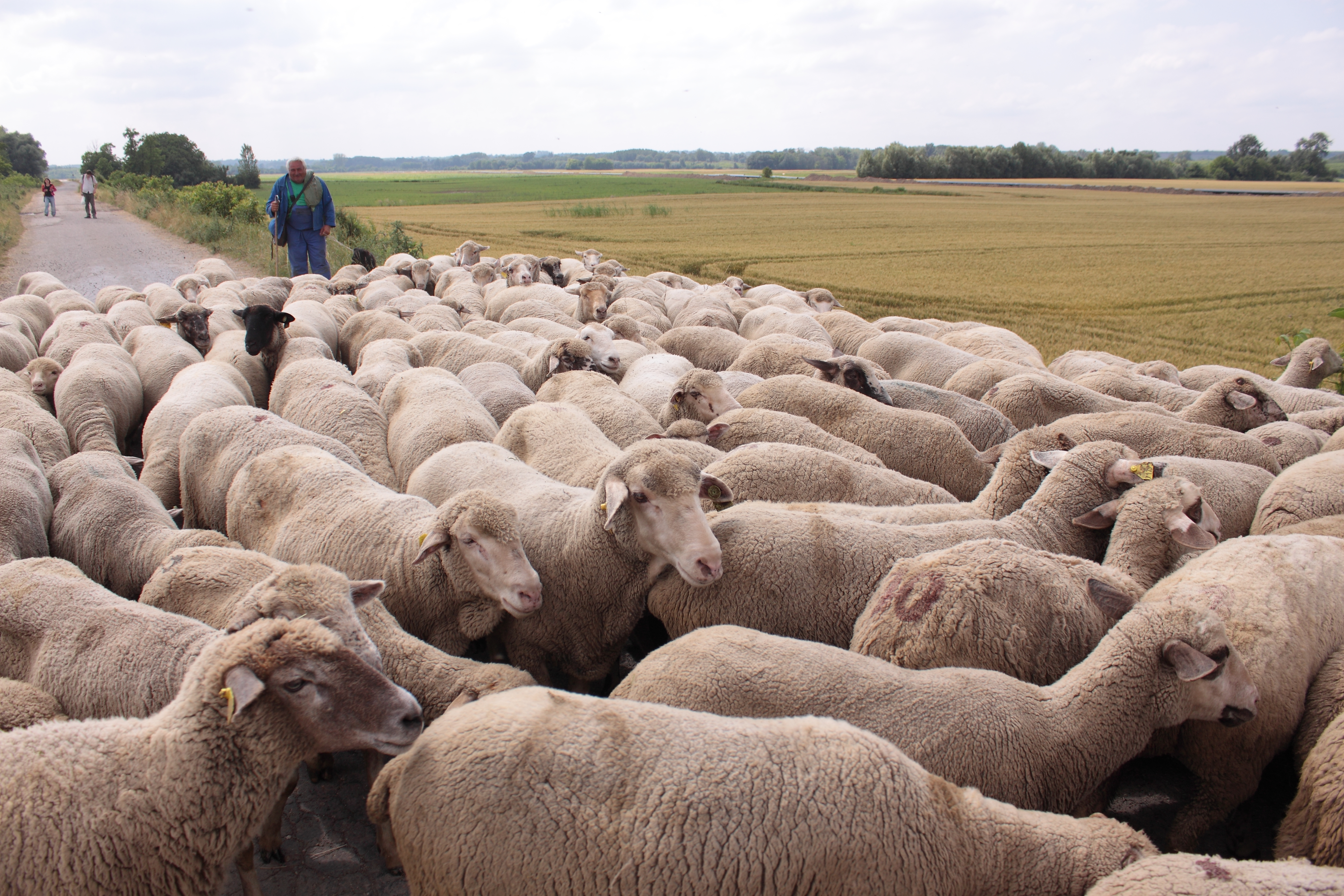 Shepherd with his sheep at Mohács Island, Hungary